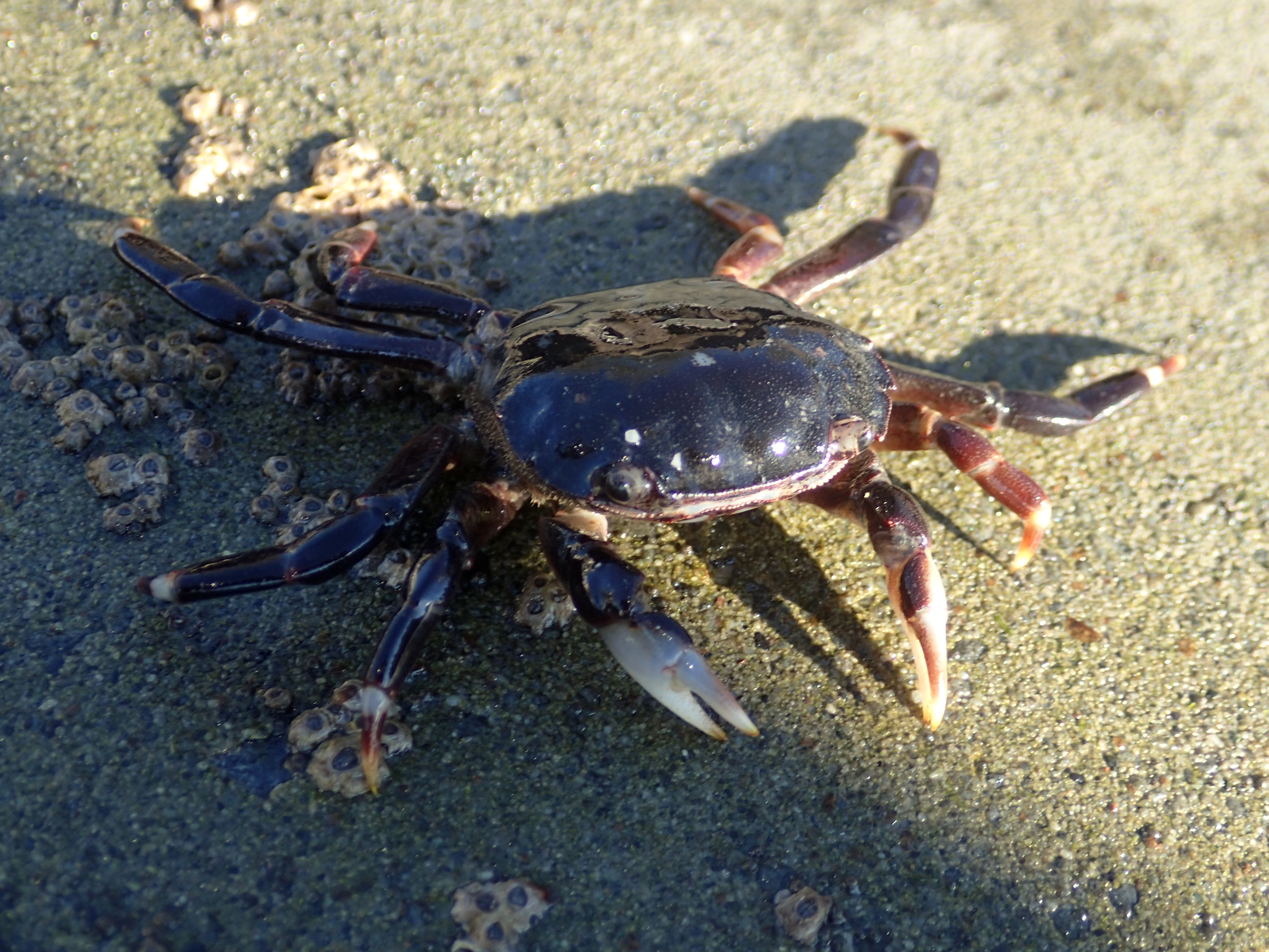 Common Rock Crab pulled from under a rock. Oriental Bay, Wellington, New Zealand.